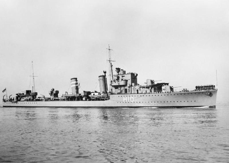 Photograph of British E class destroyer HMS Encounter.